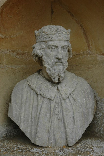 King Alfred, Temple of British Worthies, Stowe